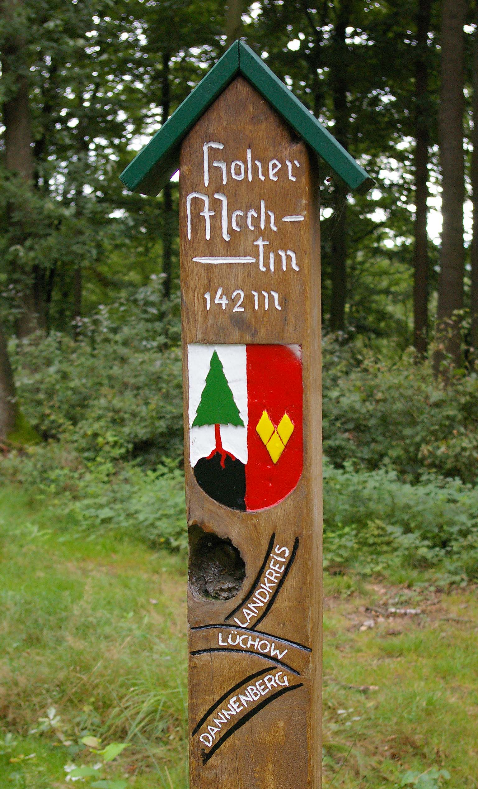 Altitude sign on top of the "Hoher Mechtin", highest altitude of the hilly region "Drawehn" between Hamburg and Berlin (North German Lowland).